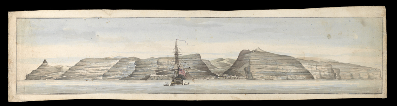 H.M.S. Director 1784, at St Helena with a view of Jamestown Mounted with PAH0742-PAH0743. Prise du batiment Lady Shore Victoires et Conquetes